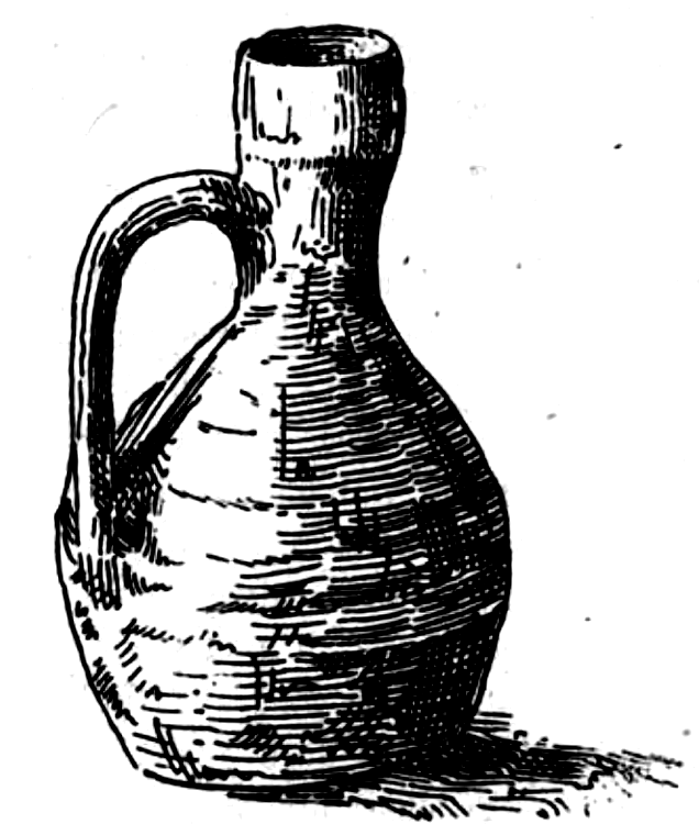 Small vase found on a grave near the roman archaeological site of Quinta de Marim, in the Olhão municipality, in Portugal. It was probably used to contain unguent or perfume. This image was published in the work "O Archeologo Português", series I, volume I, of 1895, provided by Direcção Geral do Património Cultural.